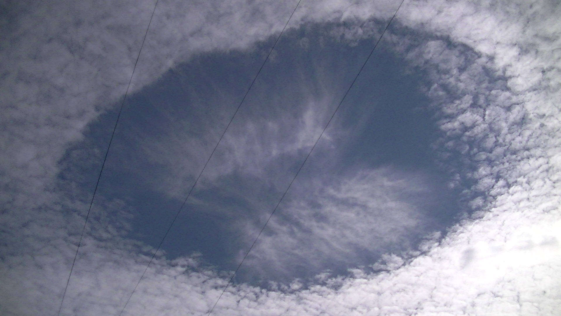 Fallstreak hole over Moscow (Russia) on september 05,2012